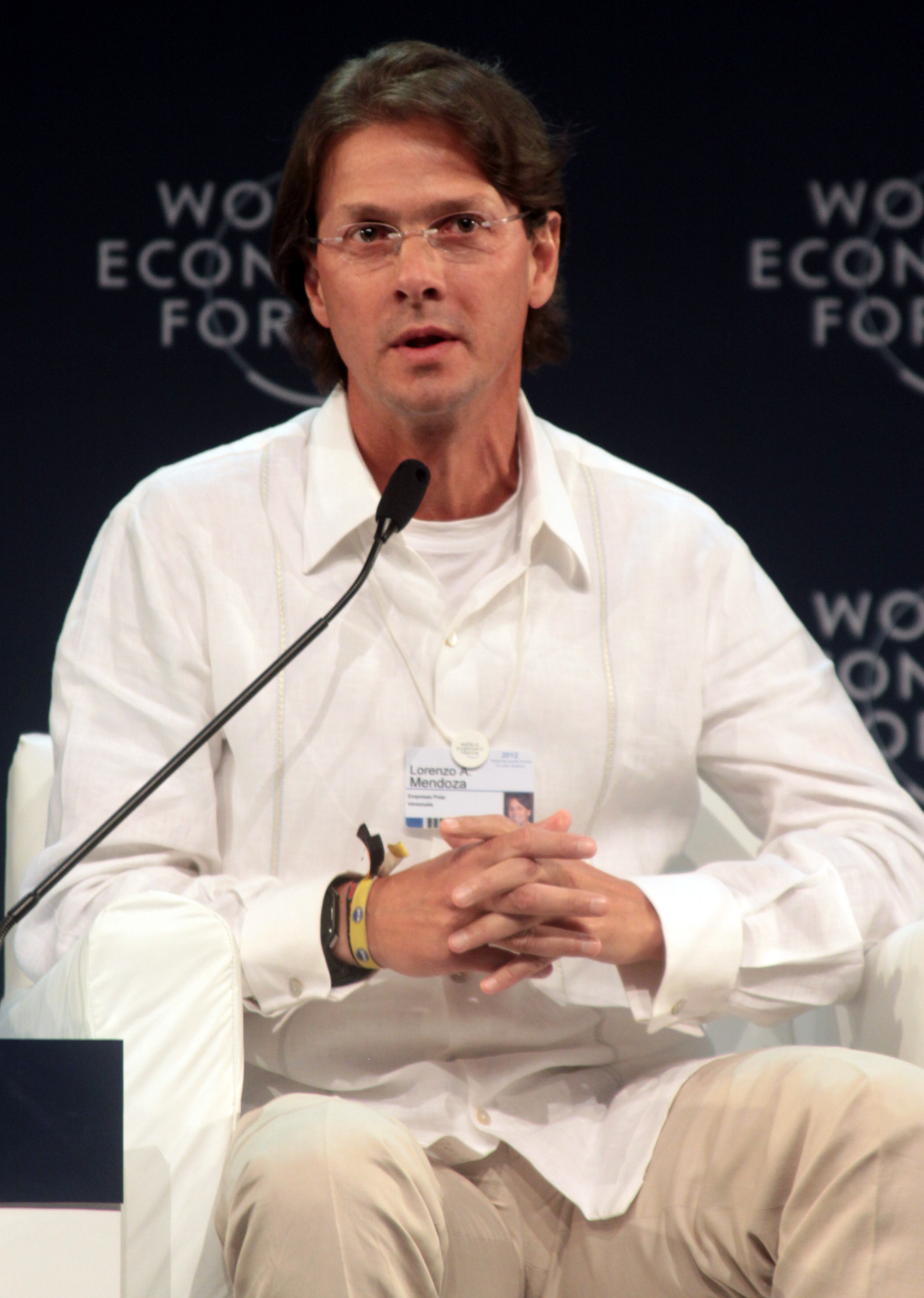 PUERTO VALLARTA/MEXICO, 18APR12 -Lorenzo A. Mendoza, Chief Executive Officer, Empresas Polar, Venezuela; Global Agenda Council on New Models of Leadership captured during Plenary Session 'The Next Generation of Latin American Leadership' at the World Economic Forum on Latin America 2012 in Puerto Vallarta, Mexico. Copyright World Economic Forum ( by Josef Kandoll Wepplo